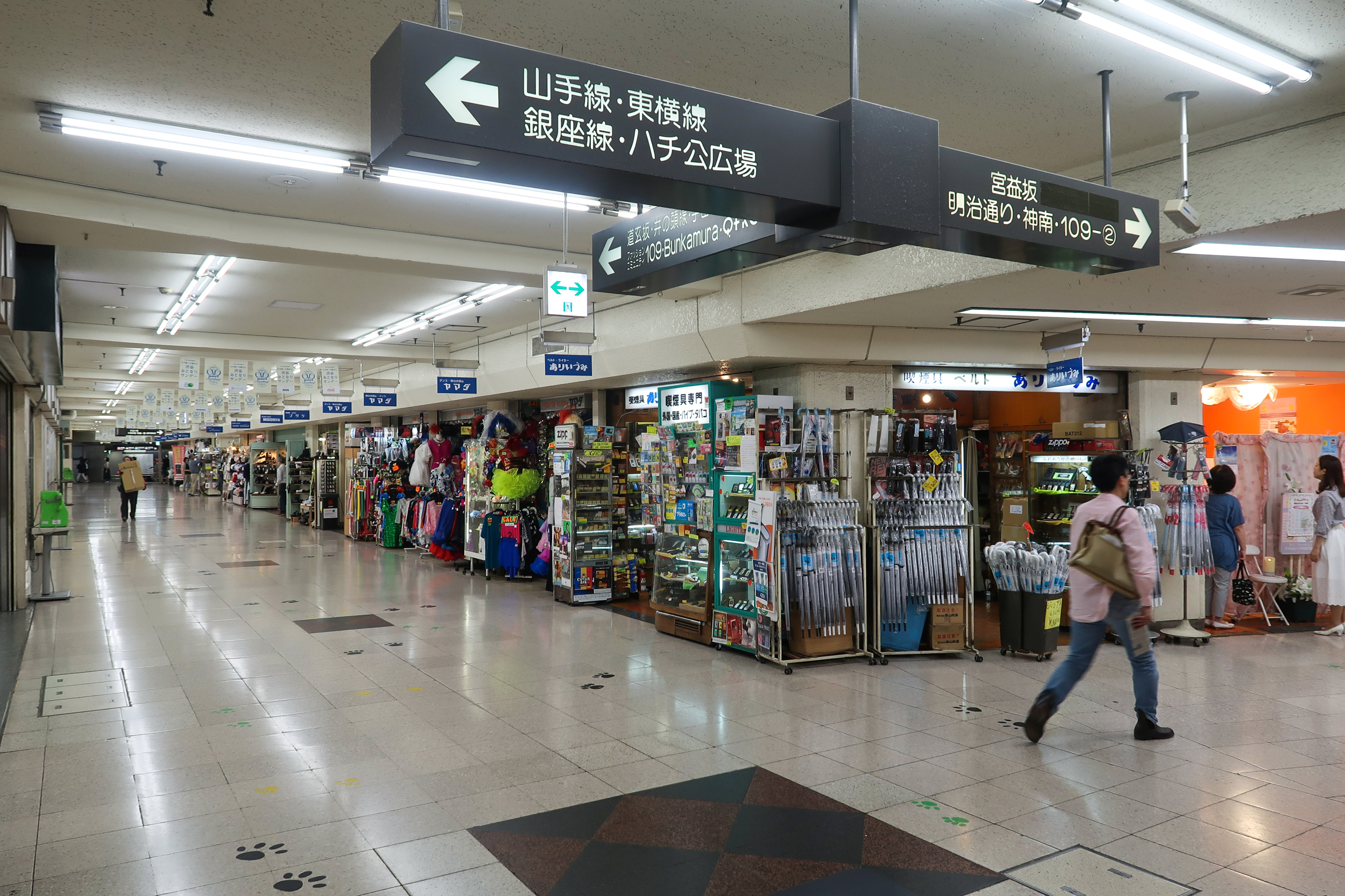 ShibuChika shopping road しぶちか 渋谷 地下街